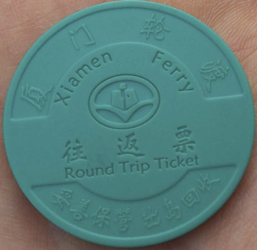 Gulangyu Island Ferry Round Trip Ticket